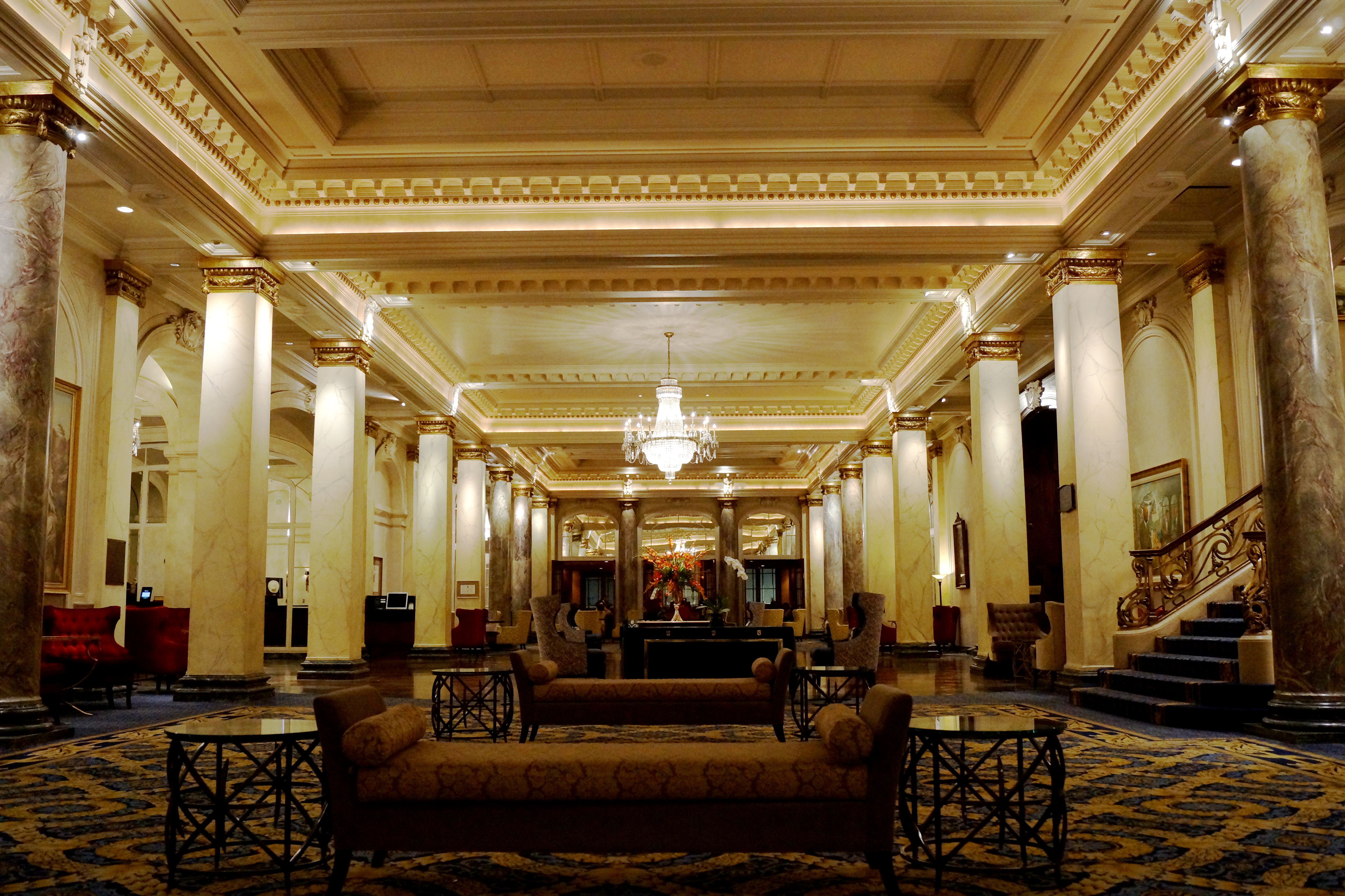 Lobby of the Fairmont Paslliser Hotel in Calgary